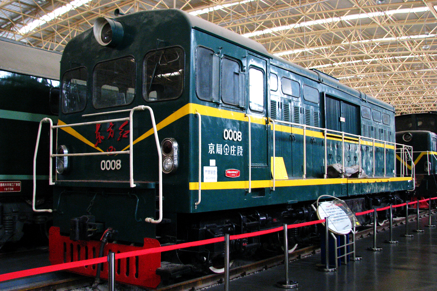 A China Railways Dongfanghong (The East Is Red) 2 diesel locomotive preserved in China Railway Museum.